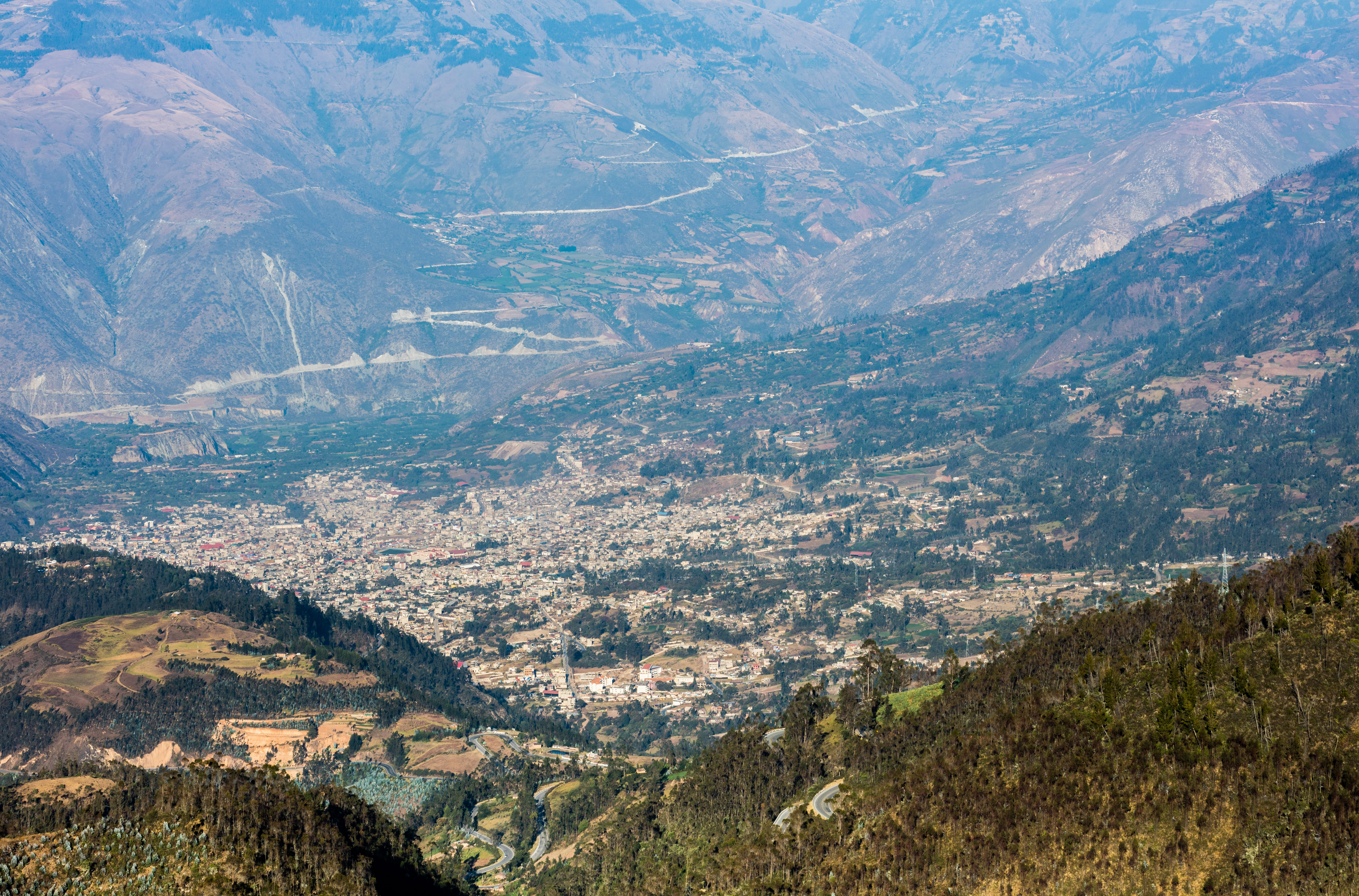 View of Abancay, Peru